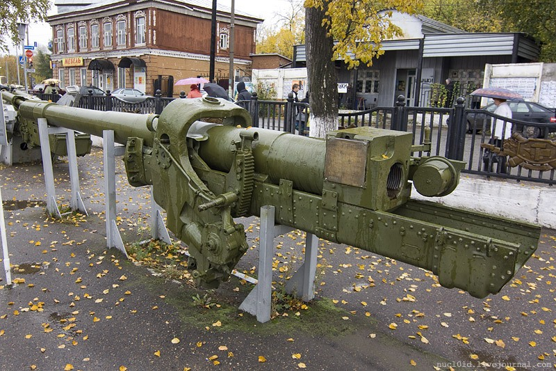 152-mm howitzer-gun M1937 (ML-20S, 1943) for armament of SU-152 self-propelled heavy howitzer. Motovilikha Plants museum in Perm Russia.